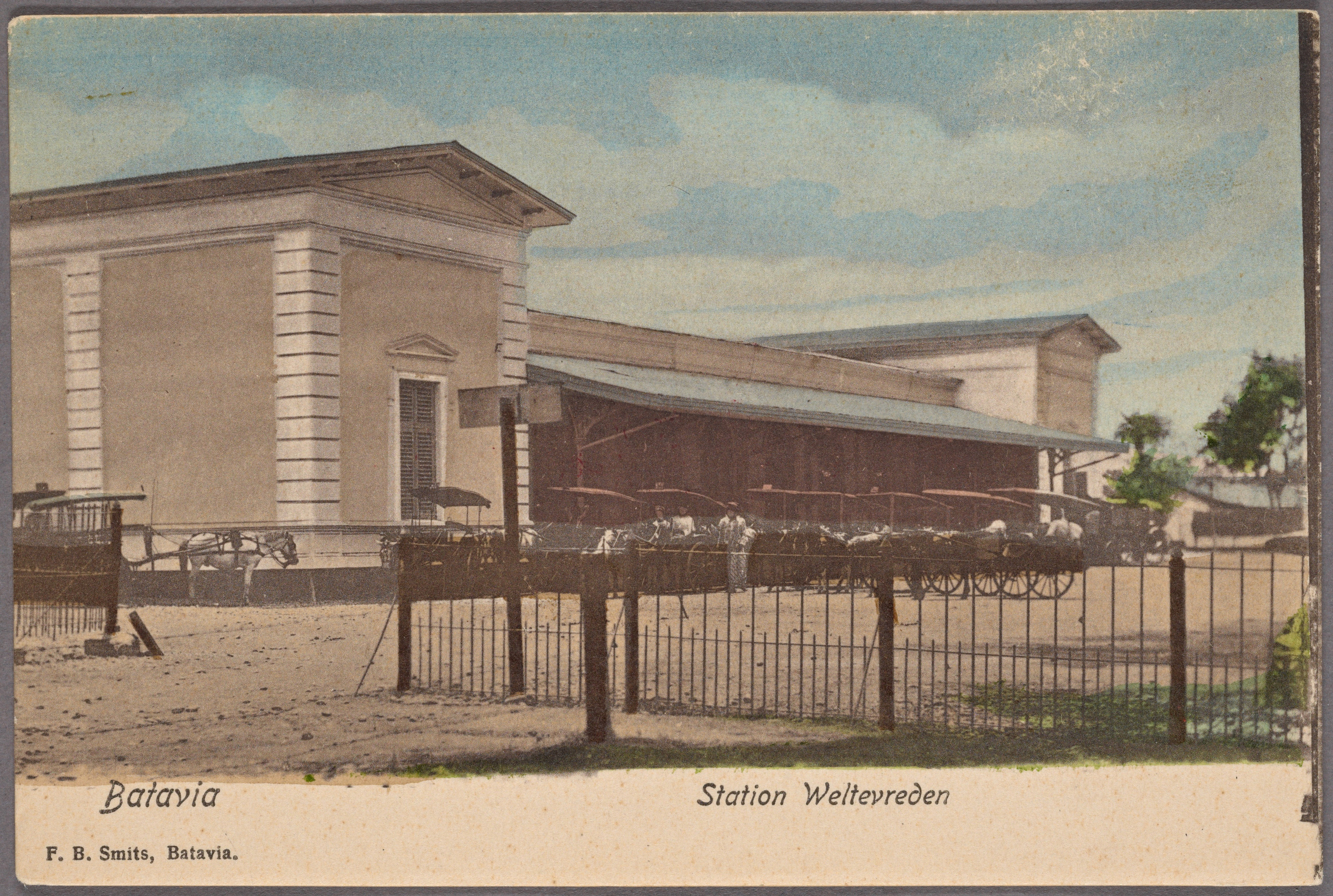 Batavia. Station Weltevreden.